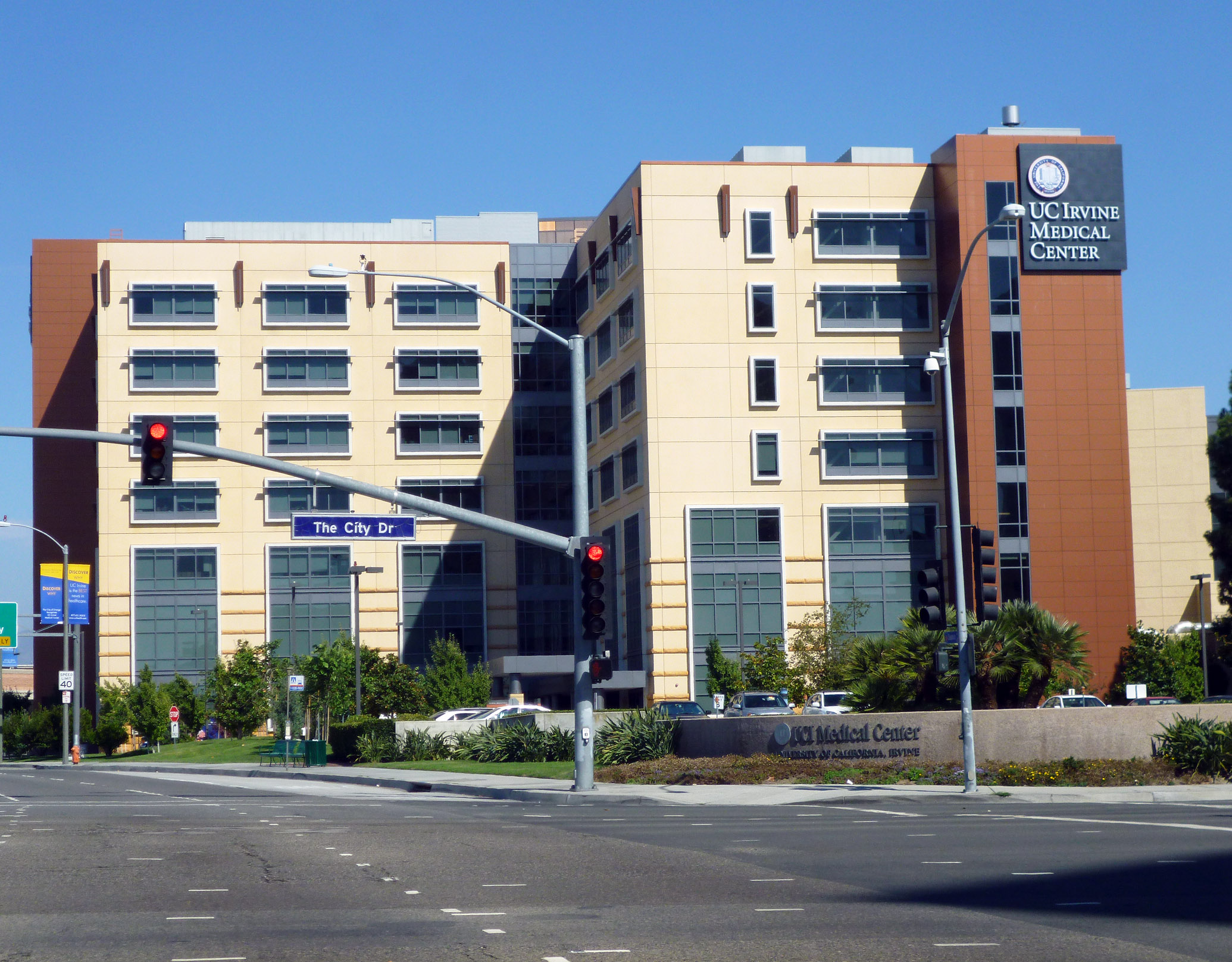 UC Irvine Medical Center in Irvine, California as photographed by user Coolcaesar on September 3, 2012.